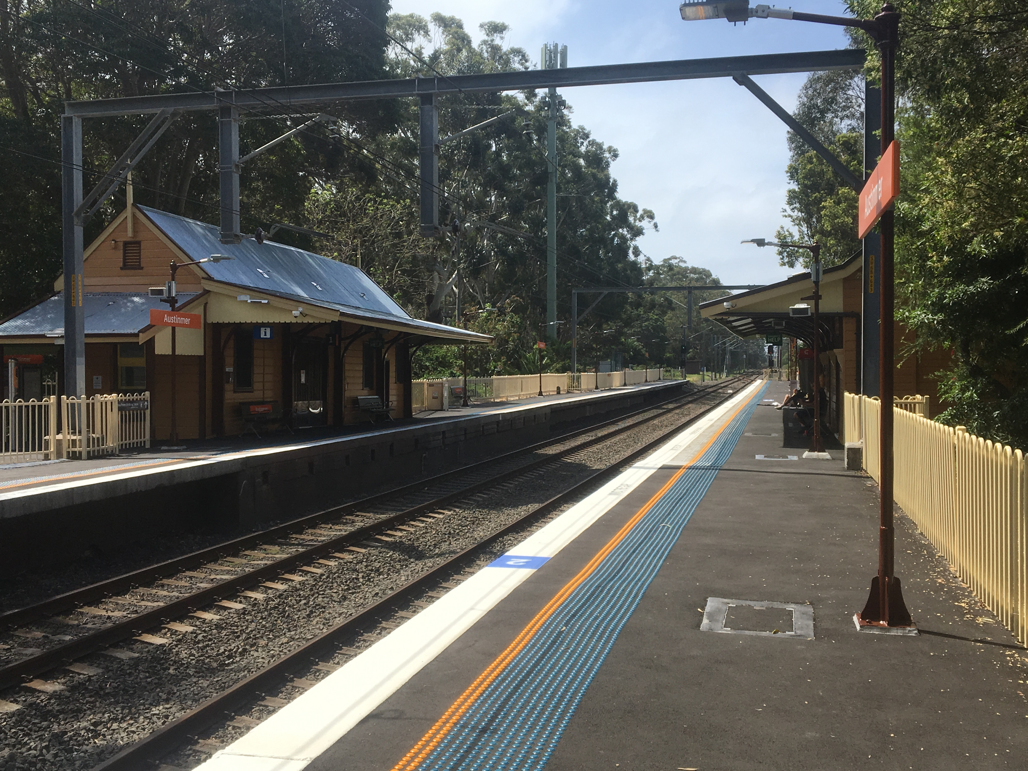 The view from platform 2 at Austinmer railway station.